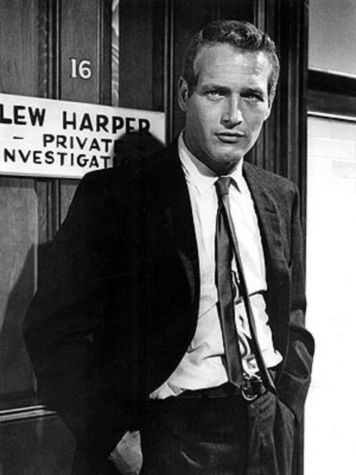 Paul Newman as Lew Harper in Warner Bros.'s Harper